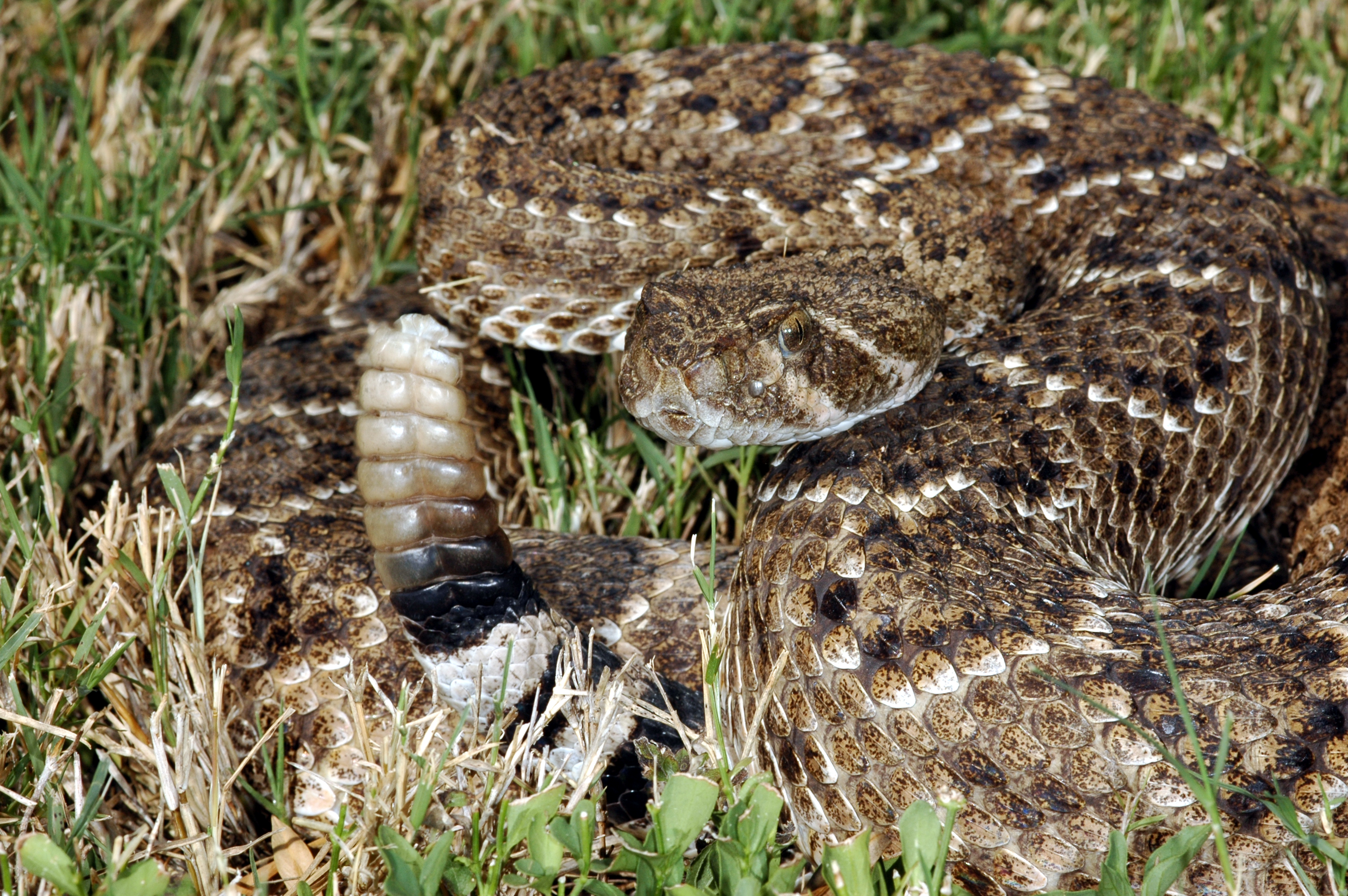 Western diamondback rattlesnake Crotalus atrox. By road RM/FM 3008 in Kinney County, Texas.